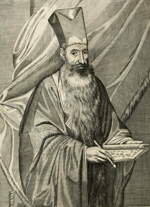 Portrait of Álvaro Semedo, Portuguese Jesuit and historian of China.